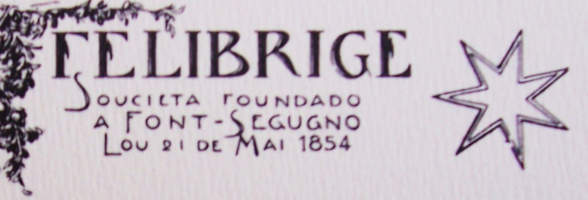 Felibrige